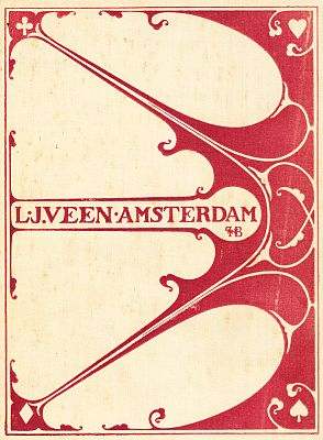 Cloth binding, designed by Dutch architect H.P. Berlage for a 1896 novel by Louis Couperus, Hooge Troeven (='High Trumps', see the playing cards motif). This is the lower or back cover of the book.